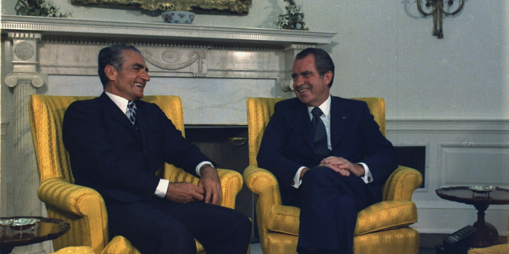 Shah of Iran state visit to the United States, 24 Jul 1973